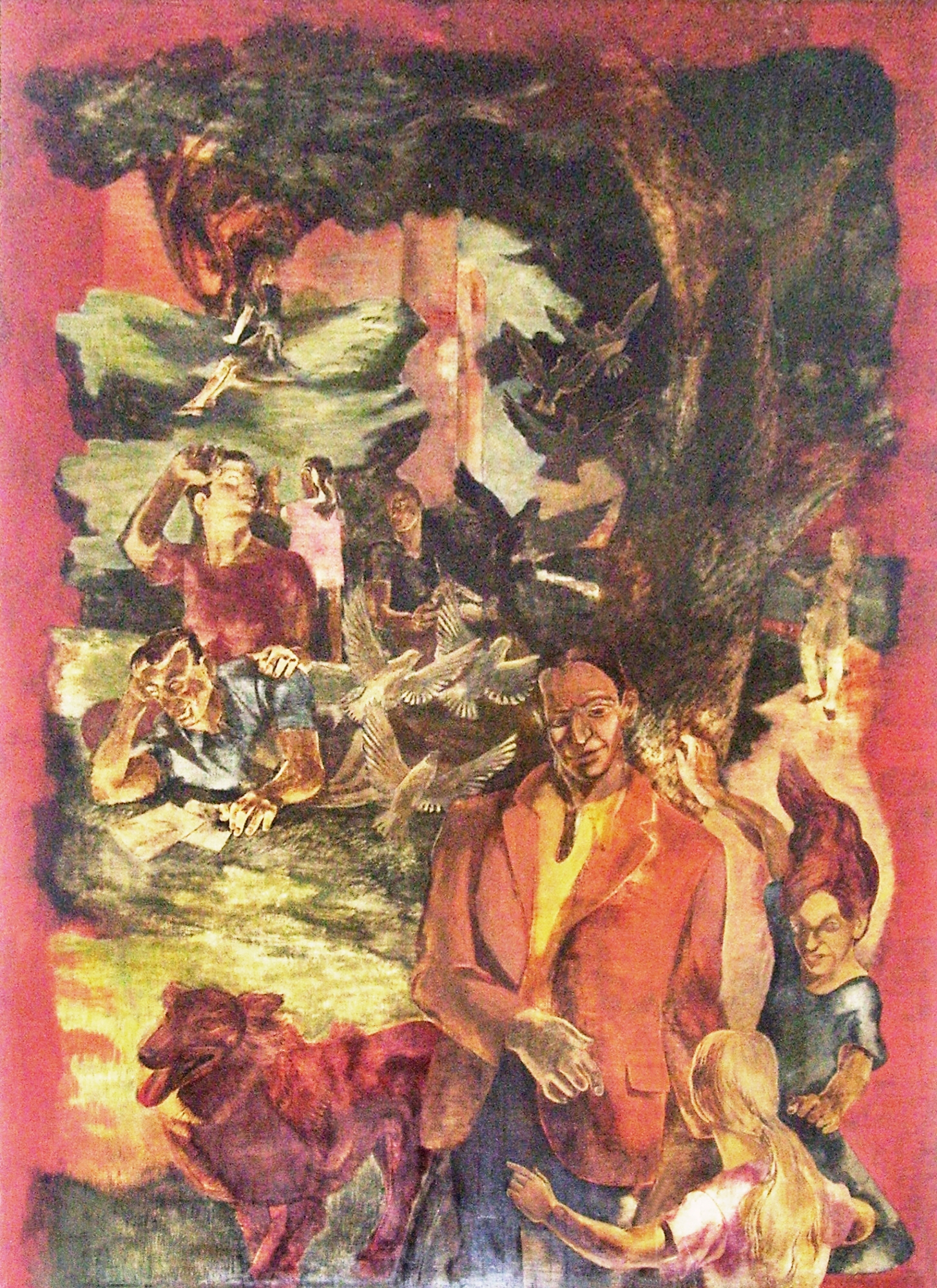 The Madison Square Station United States Post Office at 149 East 23rd Street between Lexington and Third Avenues in the Gramercy Park neighborhood of Manhattan, New York City was built in 1937 and was designed by Lorimer Rich in the Classical Revival style. The exterior of the building features five bronze relief sculptures by artists Edmond Amateis and Louis Slobodkin, while the interior has eight murals by Kindred McLeary. The building was added to the National Register for Historic Places in 1989. In spite of the building's name, it is not located on Madison Square but about five blocks (1/4 mile) away along 23rd Street. The building reaches through the block to East 24th Street, where there are loading docks and another public entrance.This image shows the first mural on the west wall near the main entrance.